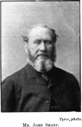 John Sharp (New Zealand politician) from his NZETC entry.